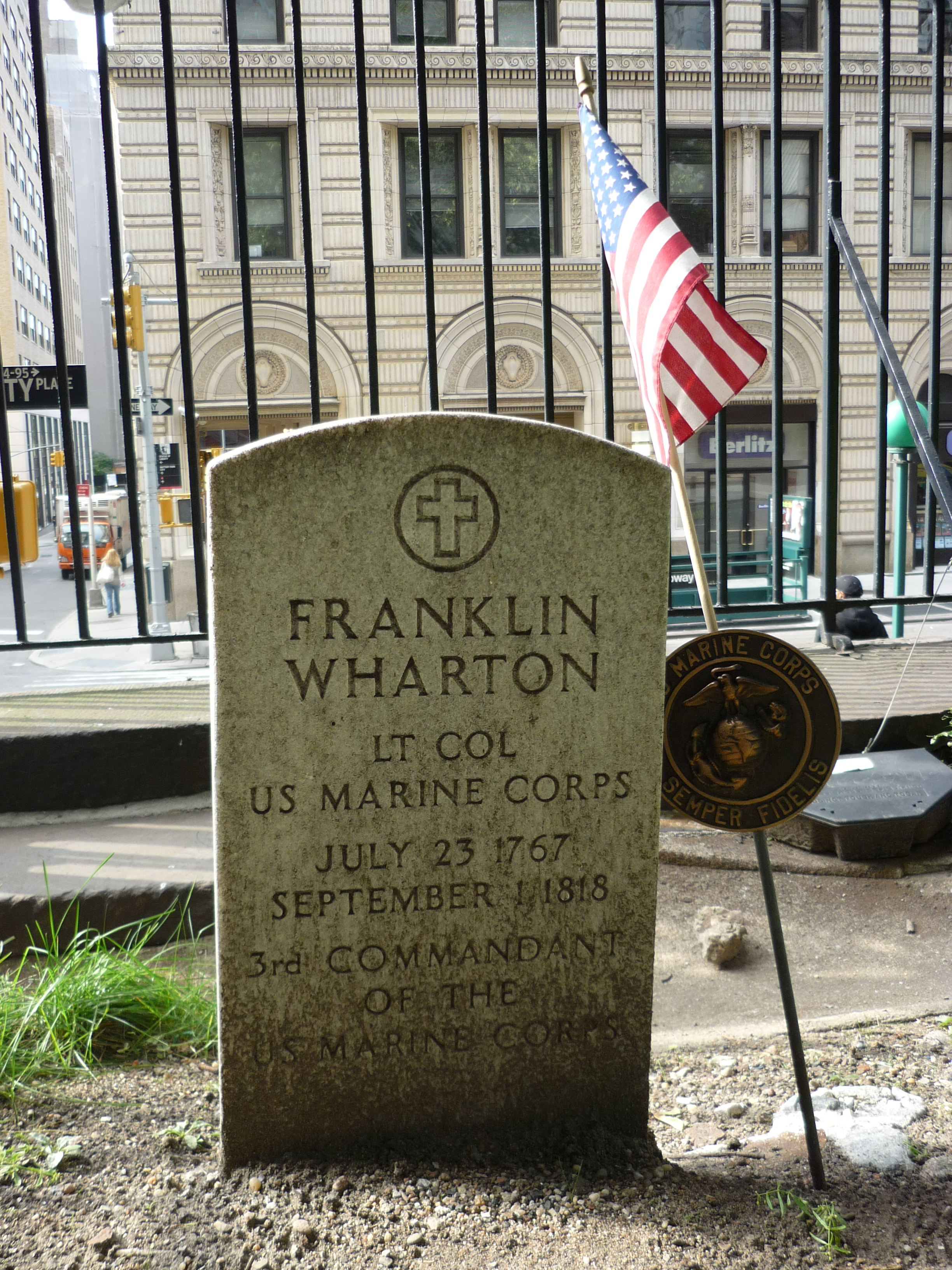 This photo is of Wikis Take Manhattan goal code G19, Franklin Wharton.